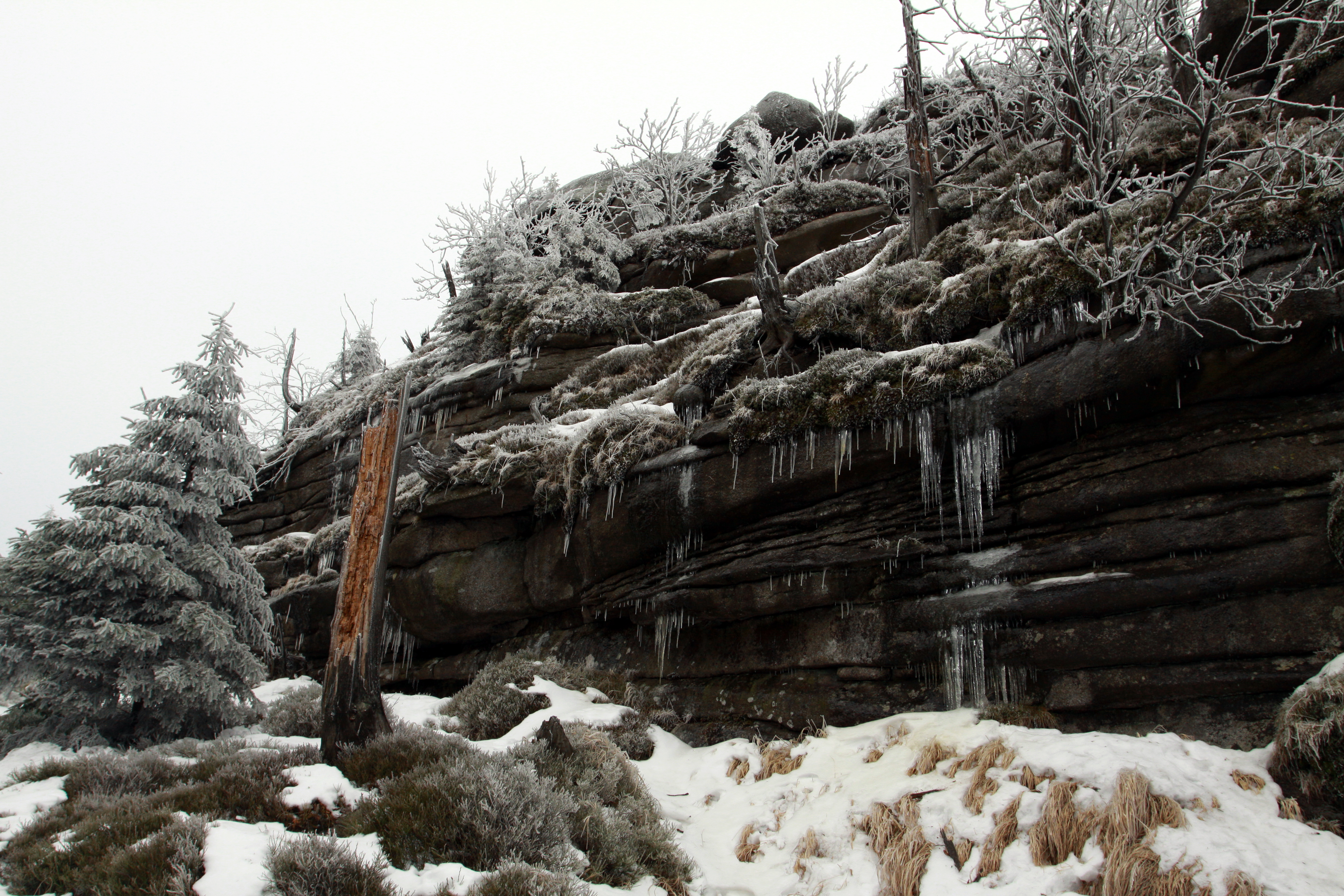 Nature reserve Prales Jizery in winter 2013/2014, Liberec District, Czech Republic - Google Maps - Google Earth